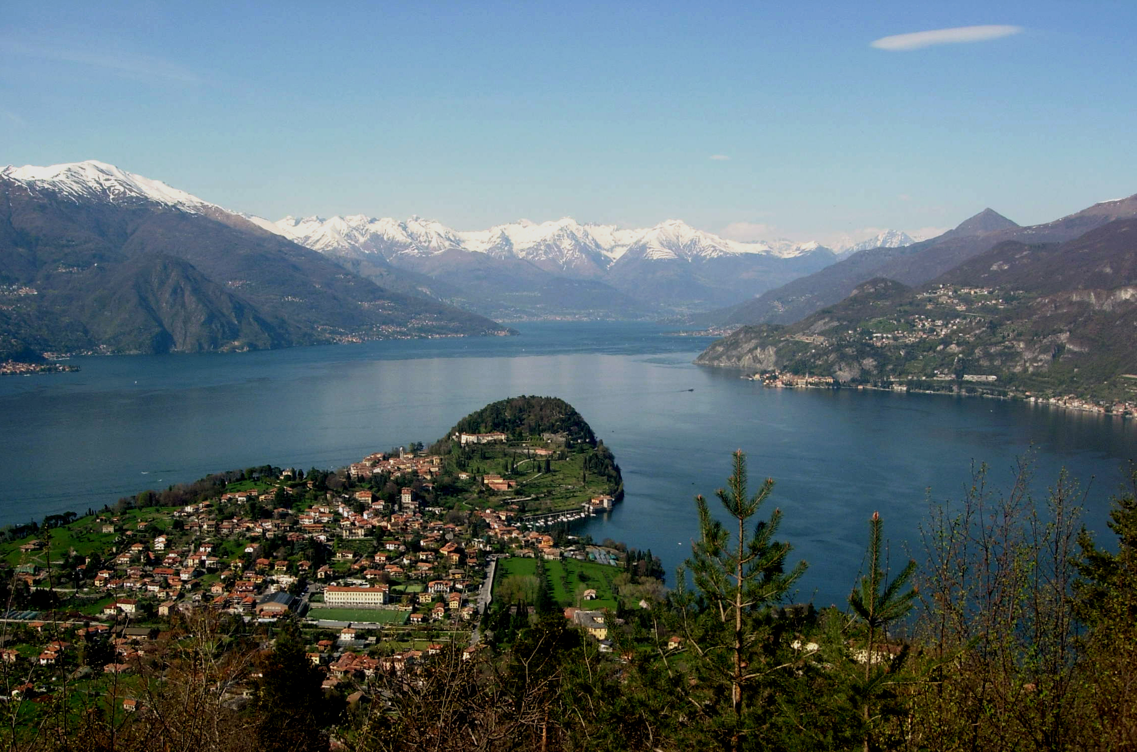 Bellagio at Lake Como, tip of Triangolo Lariano peninsula. View to north with Varenna at the eastern shore and parts of Menaggio at the western shore.